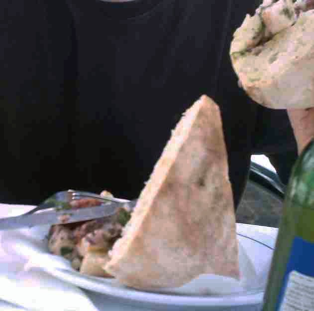 Picture taken in Madeira, showing "Bolo do caco", a typical portuguese bread from that island.